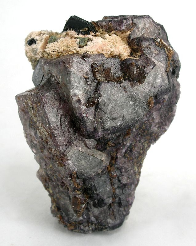 Xenotime-(Y), Fluorite Locality: Erongo Mountain, Usakos and Omaruru Districts, Erongo Region, Namibia (Locality at ) Extremely rare both for this locality or for ANY location, this association just amazed me when Charlie identified what it was for us during packing of the collection. Like the above specimen, it is not the best of species, but it IS significant nonetheless for its proof of the complexity of minerals to be found here and to any Erongo suite others may be assembling. Charlie spent a LONG TIME there...and he was pretty impressed by these. 5.5 x 4 x 3 cm